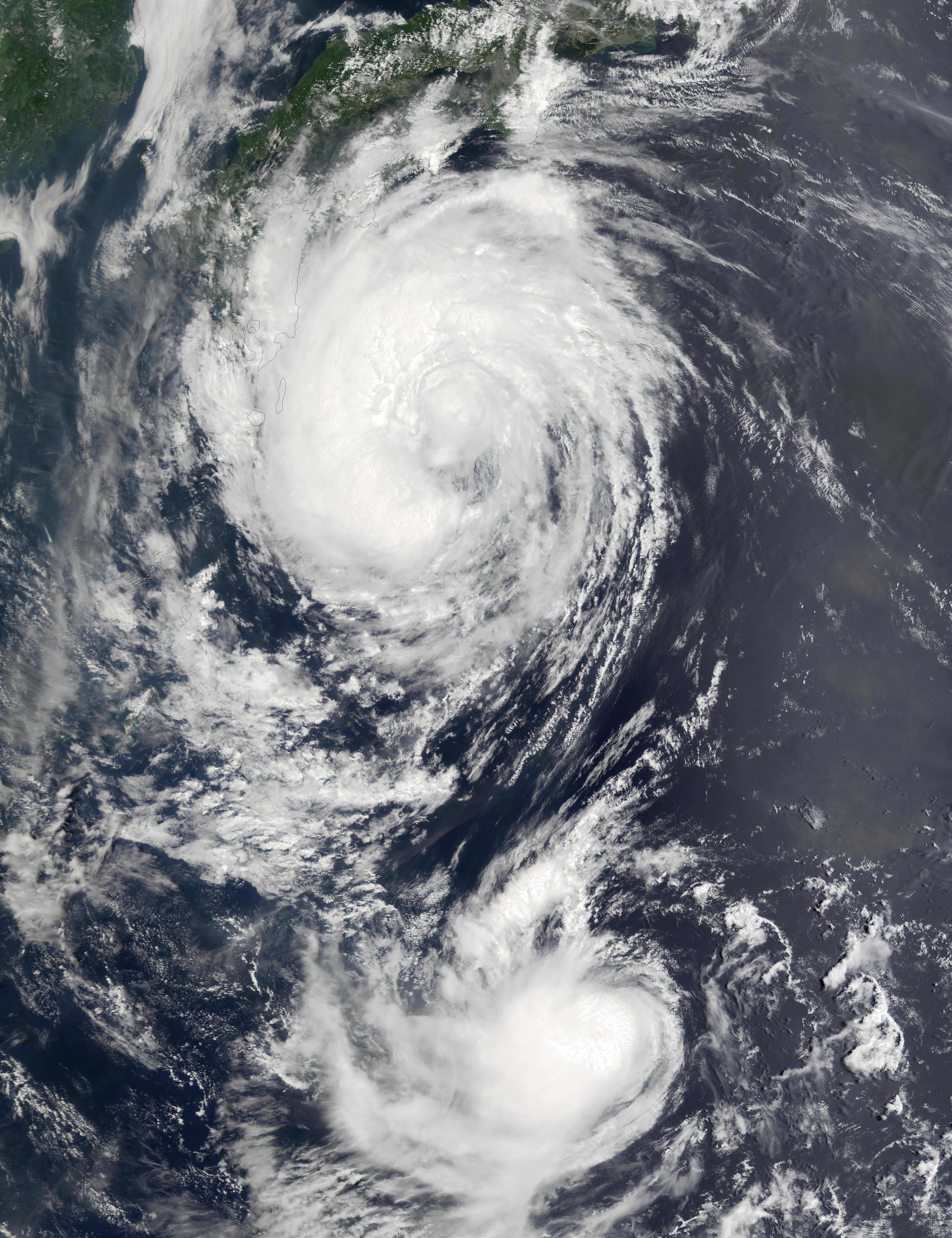 This unusual true-color Moderate Resolution Imaging Spectroradiometer (MODIS) image captured on July 25, 2002, shows two Typhoon systems approaching the Far East. The largest storm, draped over southern Japan (top center) is Fengshen. The smaller storm to the south is Fung Wong.